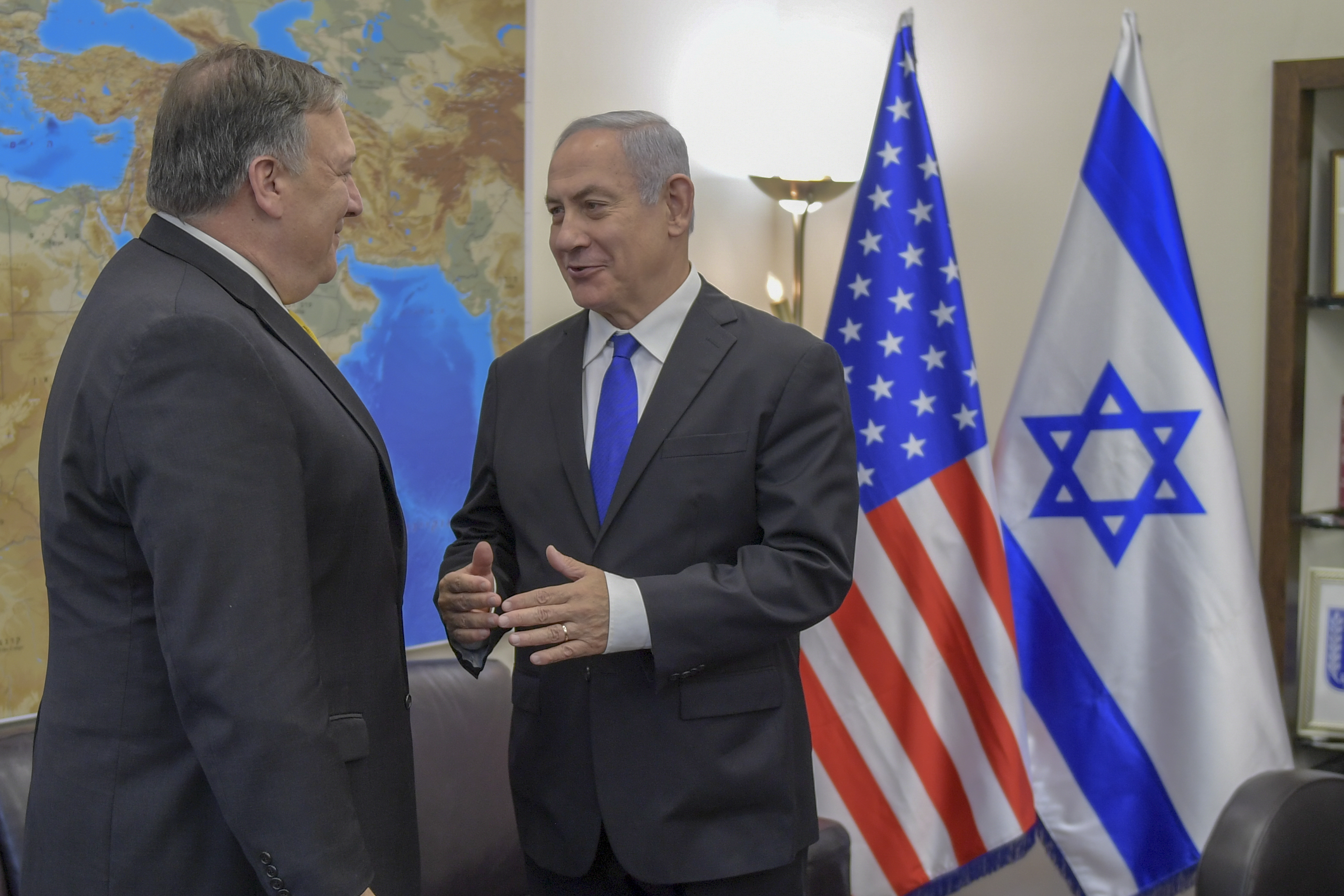 U.S. Secretary of State Mike Pompeo speaks with Benjamin Netanyahu, the Prime Minister of Israel, in Tel Aviv, on April 29, 2018. (State Department photo by Ron Przysucha / Public Domain)